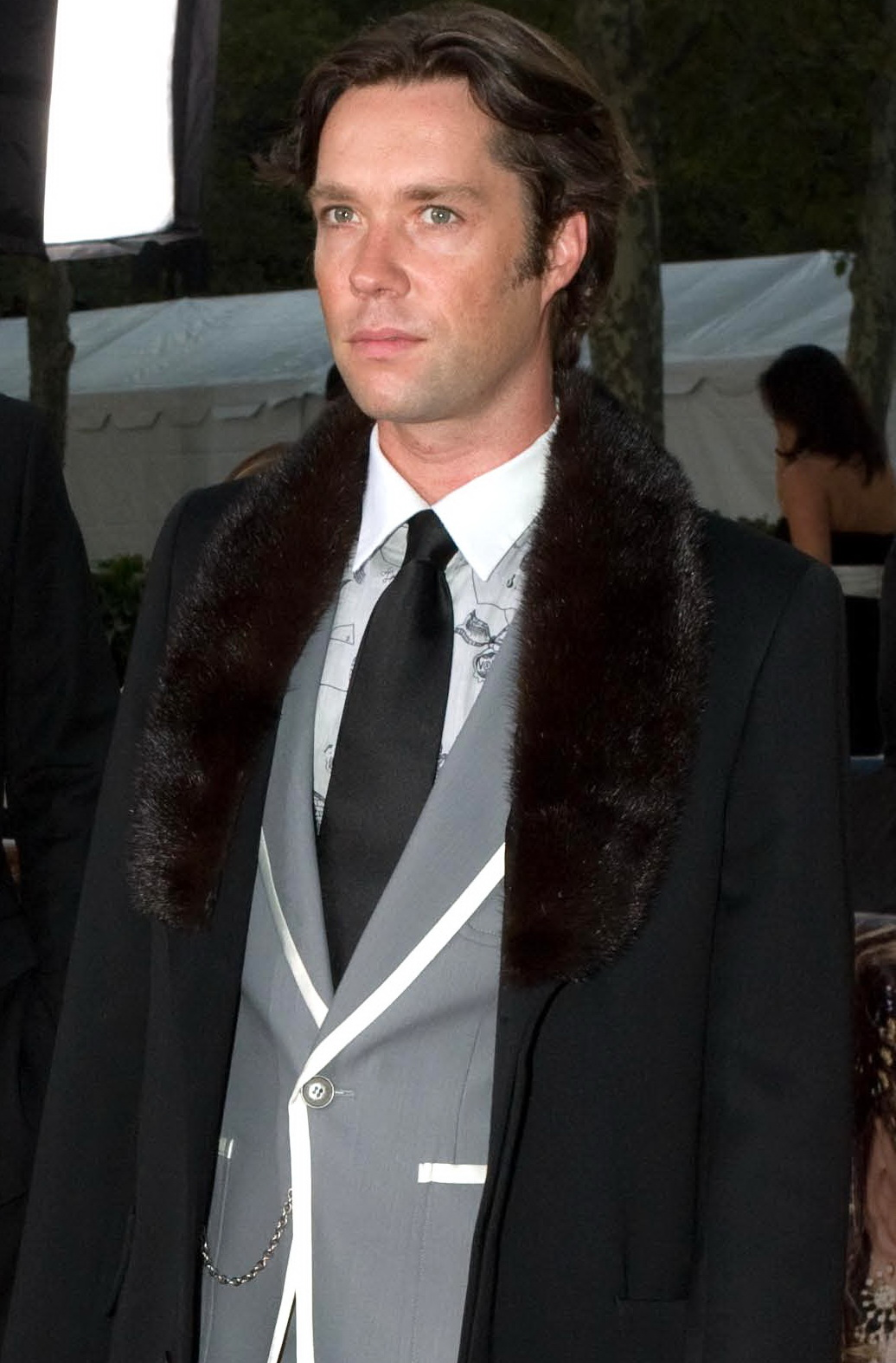 Rufus Wainwright at the Metropolitan Opera opening in 2008. © Rubenstein, photographer Martyna Borkowski